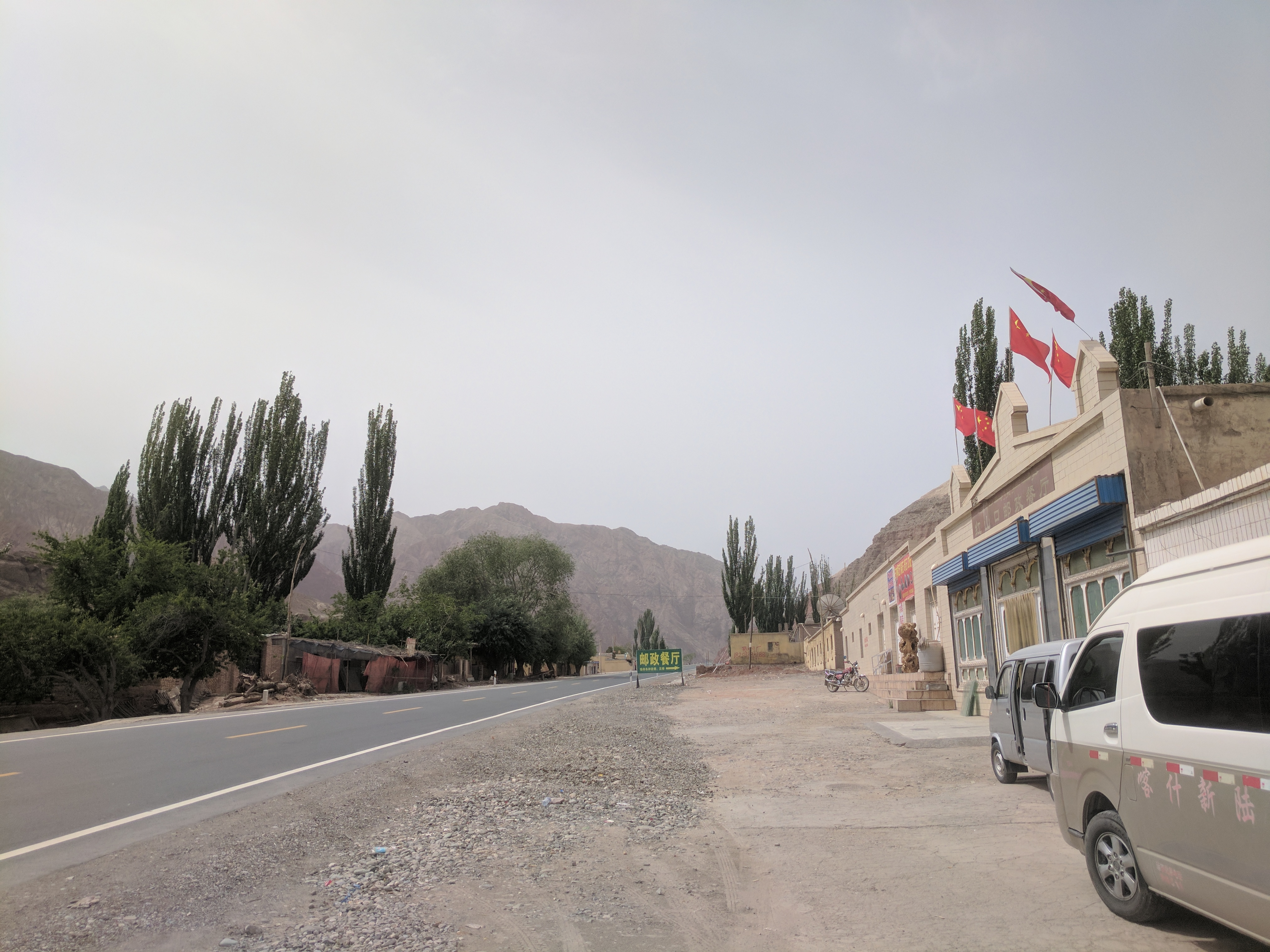 China National Highway 314 by China Post at Oytak